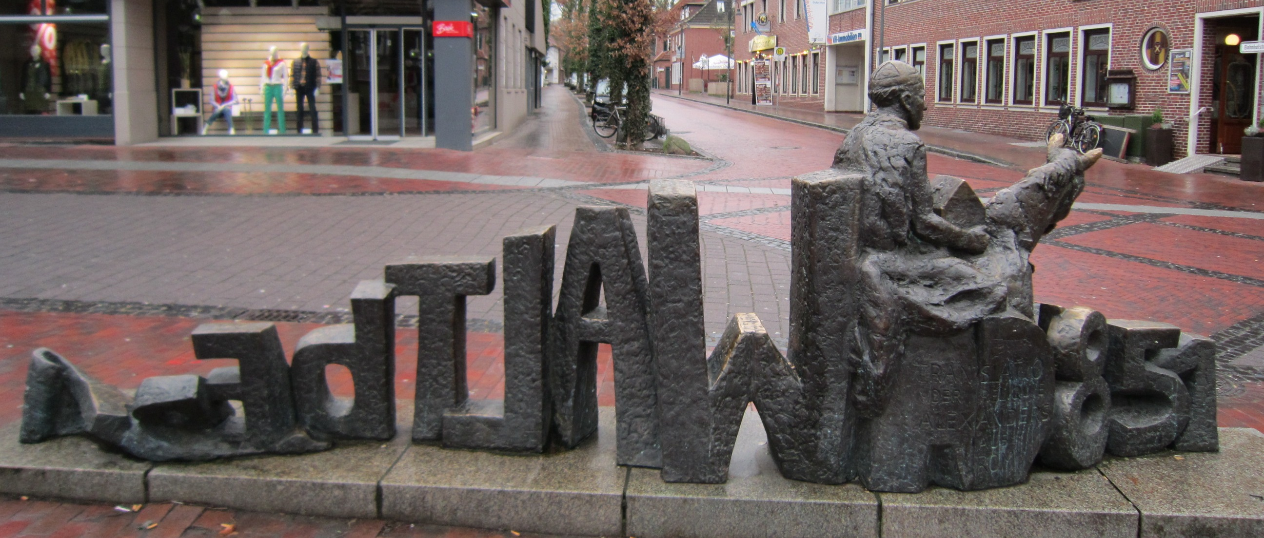 Sculpture showing the "translatio" of St. Alexander's bones to Wildeshausen by Waltberg in Wildeshausen